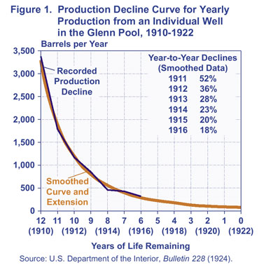 Production Decline Curve for Yearly Production from an Individual Well in the Glenn Pool, 1910-1922 (Barrels per Year)